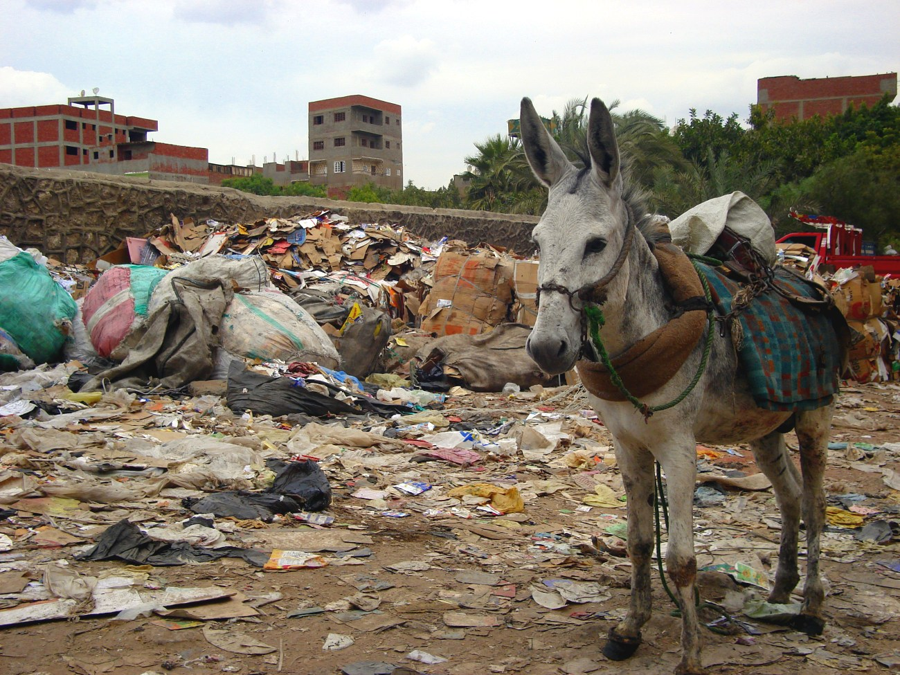 A Donkey at Moqattam Hill in Cairo